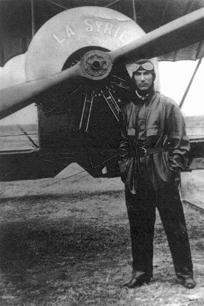 Pedro Travesari Infante